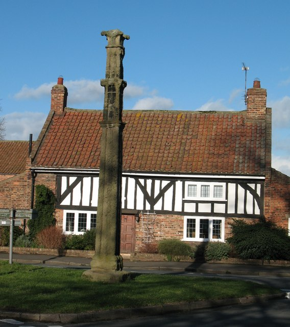 The Battle Cross This cross was moved here from nearby Boroughbridge where it stood in the Market Place until 1852. It commemorates the Battle of Boroughbridge in 1322 when Thomas Earl of Lancaster [who was far too friendly with the Scots] was defeated by Edward II's general, Sir Andrew Harcla. The cottage behind is a typical Vale of York half timbered job and is probably 17thC.